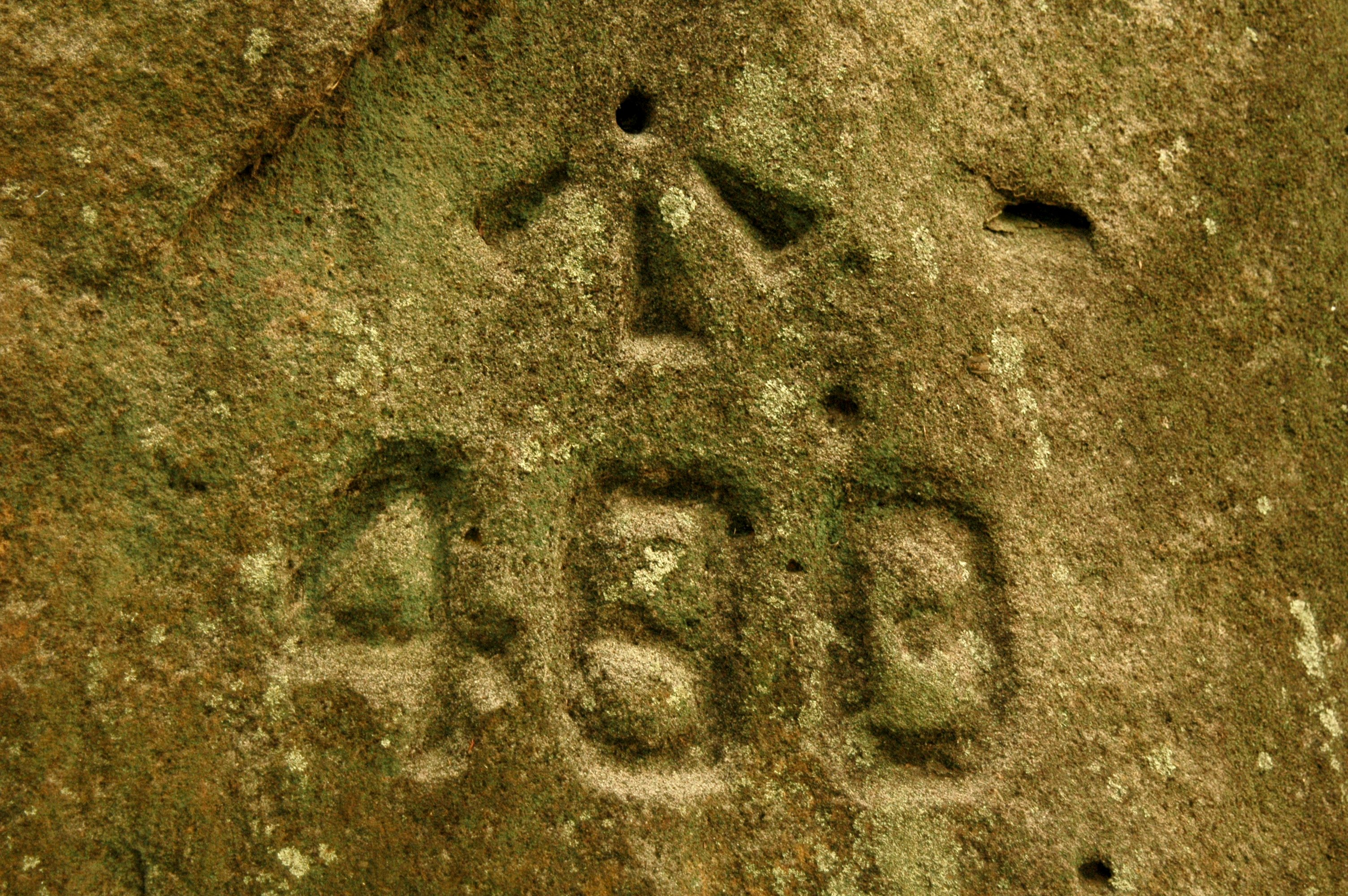 Benchmark, or ordnance mark, on route of Old Northern Rd in Inner Western Sydney (Australia) suburb. Circa 1829.